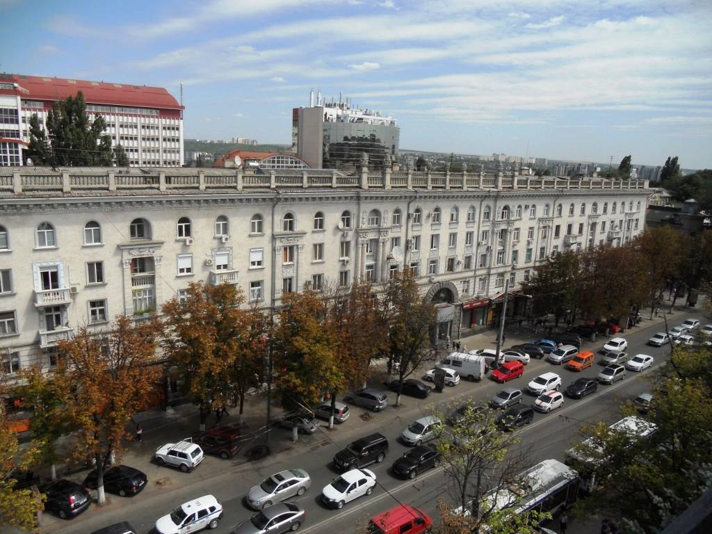 Building on Ștefan cel Mare avenue 132 in Chișinău